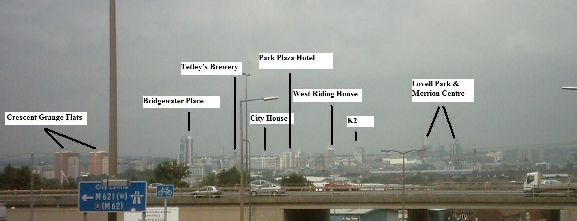 A view over central Leeds, England, UK, from the top of Belle Isle Road, LS10.